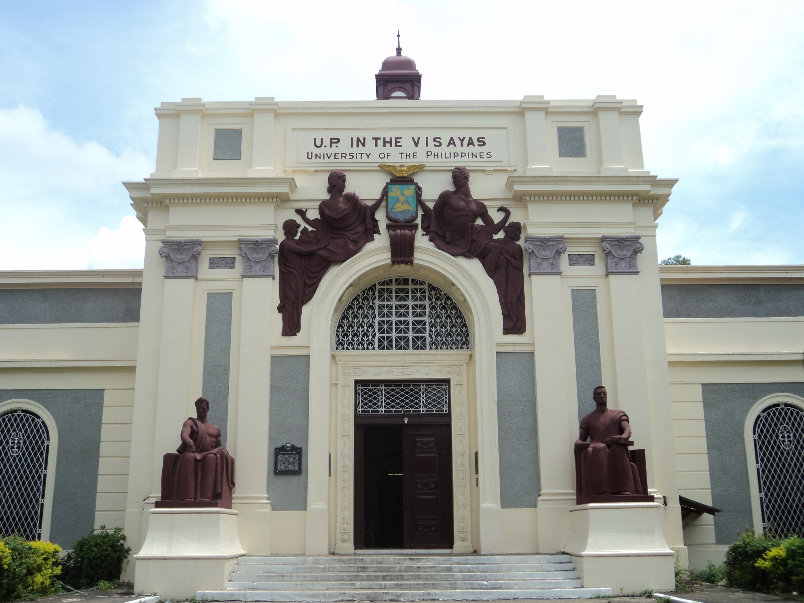 Library Building of UP Visayas Iloilo Campus